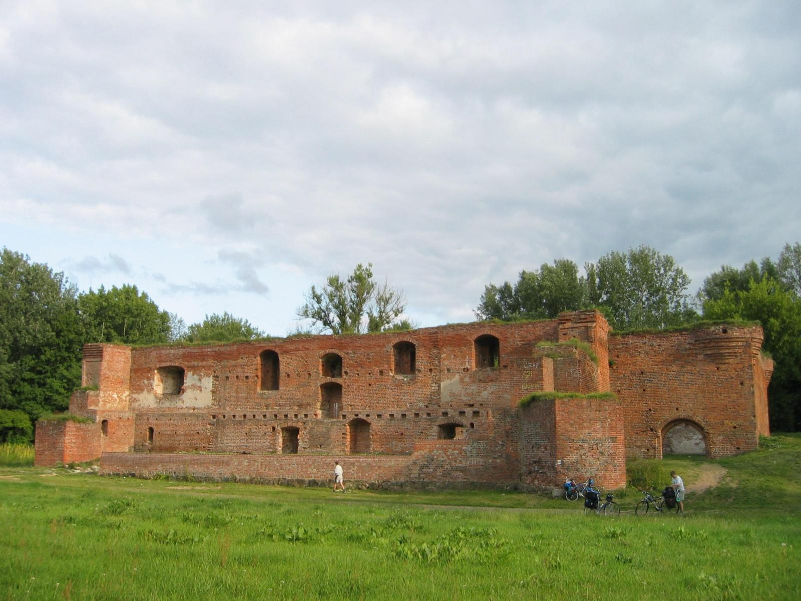 Ruin of Zamek Dybów, the Jagiellonian castle in the municipal territory of Toruń, built 1424–1428 on the opposite side of river Wistula, which was Polish territory already before the City revolted against the Teutonic Order and joined the dominion of the Polish Crown.